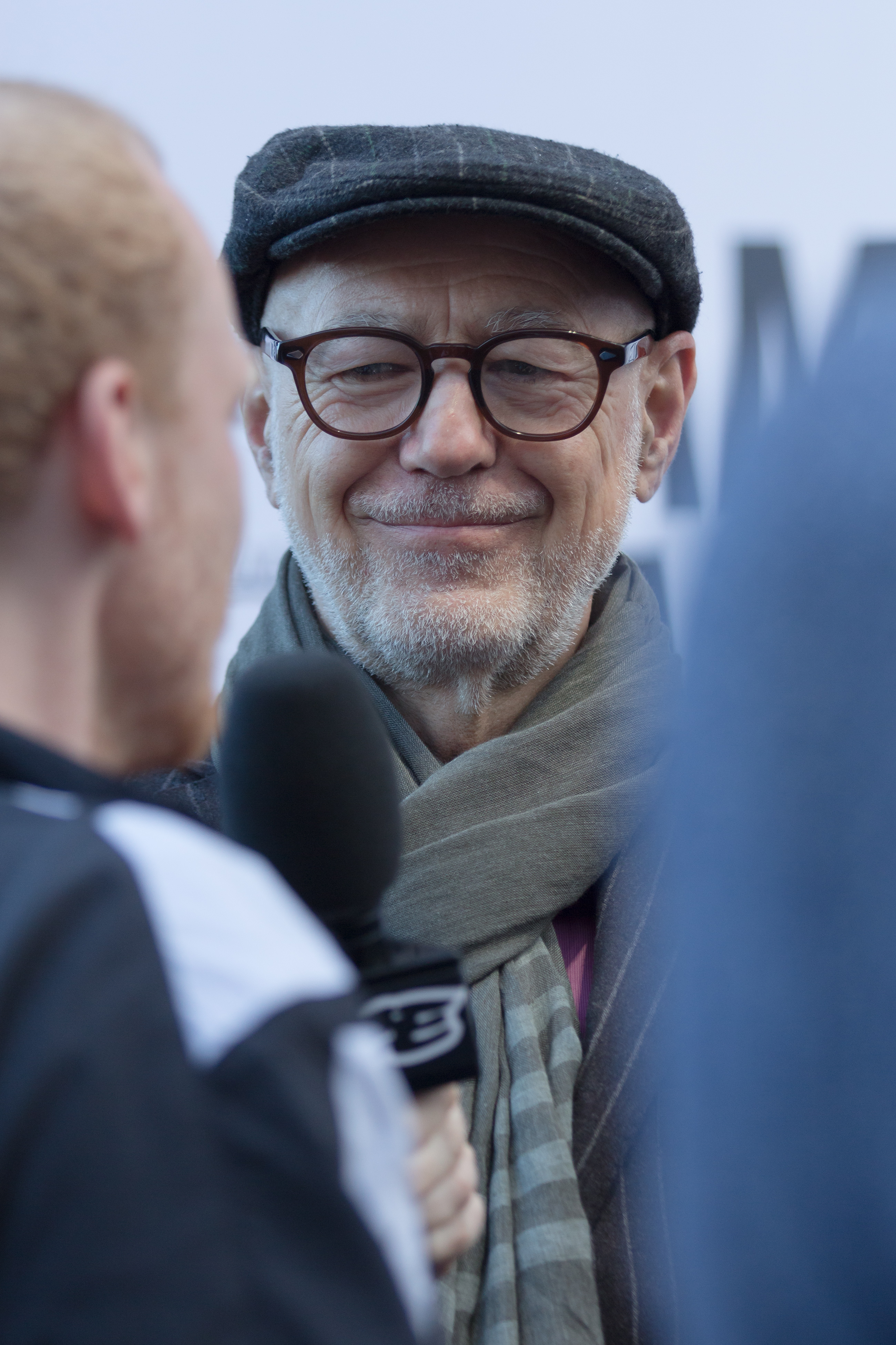 Willi Resetarits at the Amadeus Austrian Music Award 2017 at Volkstheater in Vienna.